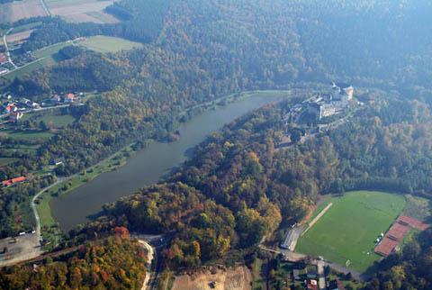 Lockenhaus, Germany, aerialphotography